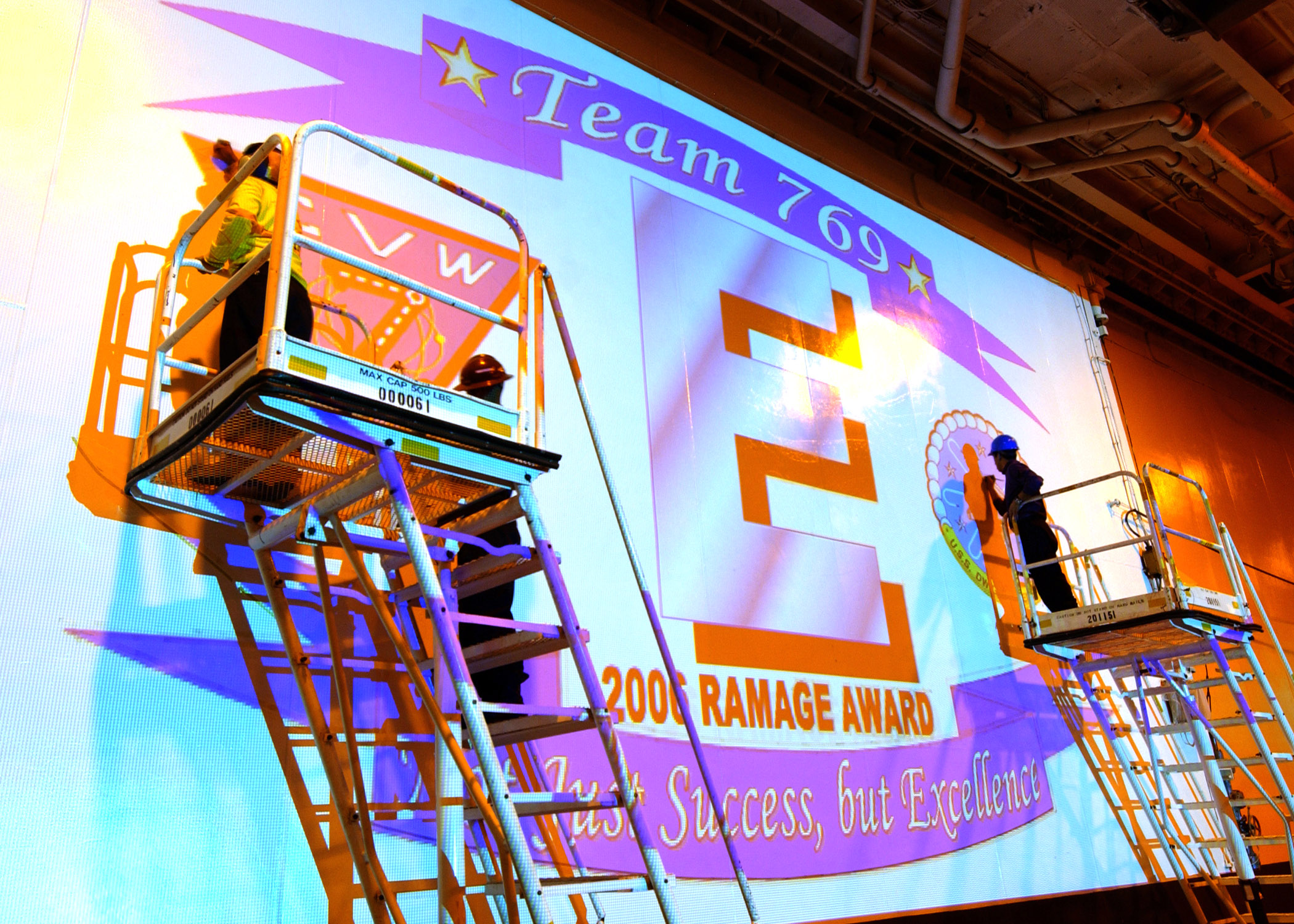 MEDITERRANEAN SEA (May 4, 2007) - Sailors paint a Battle "E" and Ramage award emblem on the hangar bay doors of Nimitz-class aircraft carrier USS Dwight D. Eisenhower (CVN 69). Eisenhower and embarked Carrier Air Wing (CVW) 7 are on a regularly scheduled deployment in support of Maritime Security Operations (MSO). U.S. Navy photo by Mass Communication Specialist Seaman Apprentice Jon Dasbach (RELEASED)